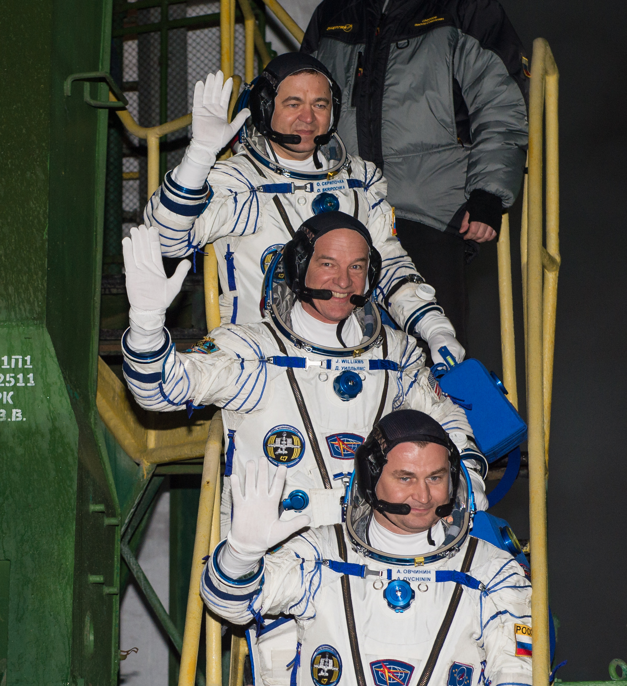 Expedition 47 Soyuz Commander Alexey Ovchinin of Roscosmos, bottom; Flight Engineer Jeff Williams of NASA, center; and Flight Engineer Oleg Skripochka, of Roscosmos, top, wave farewell prior to boarding the Soyuz TMA-20M spacecraft for launch, Saturday, March 19, 2016 at the Baikonur Cosmodrome in Kazakhstan. Ovchinin, Williams, and Skripochka will spend the next five and a half months aboard the International Space Station.